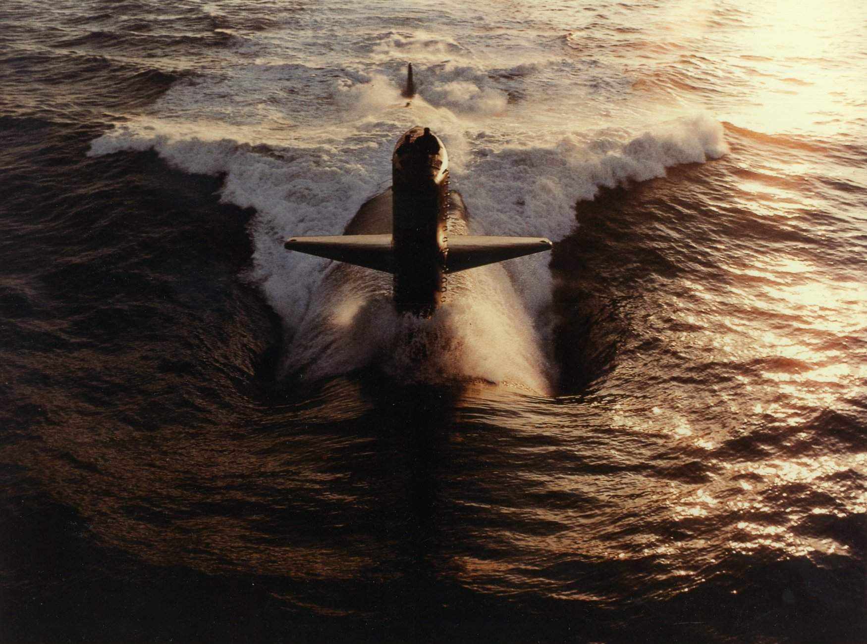 USS Hammerhead (SS-663); Hammerhead (SSN-663) underway, date and place unknown. USN photo courtesy of Darryl Baker.